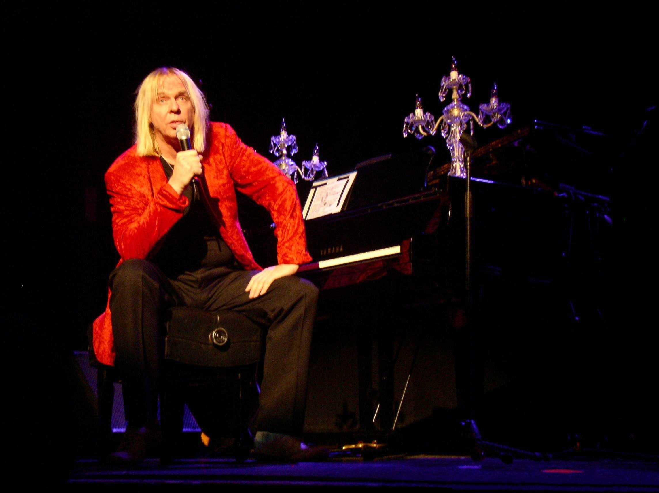 Rick Wakeman in 30. October 2003 in Somerville, MA